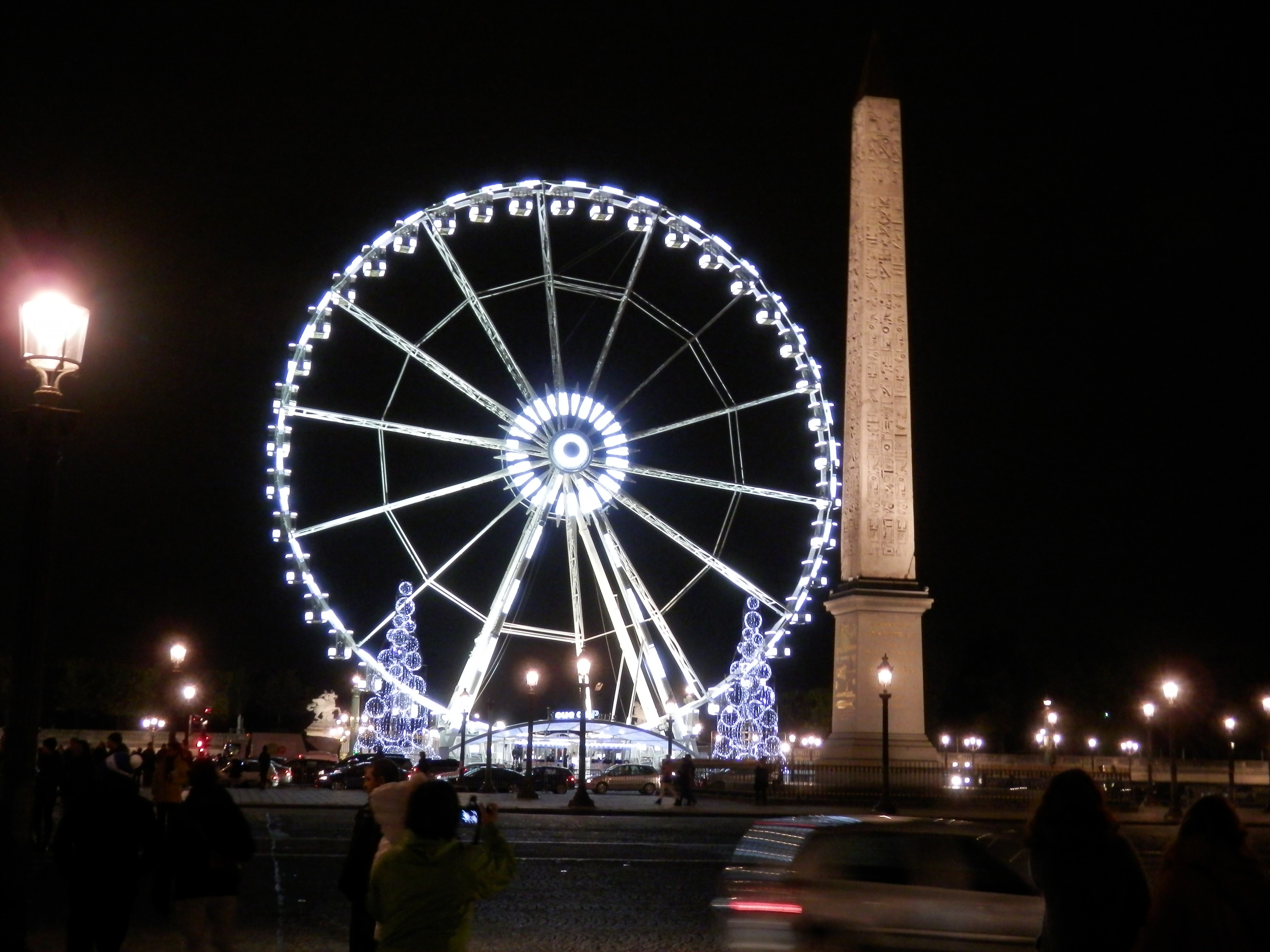 Roue de Paris and Obelisk at night